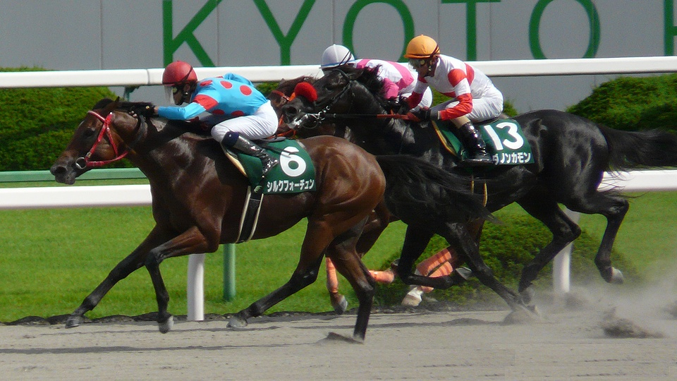 Silk-fortune20110710(2)